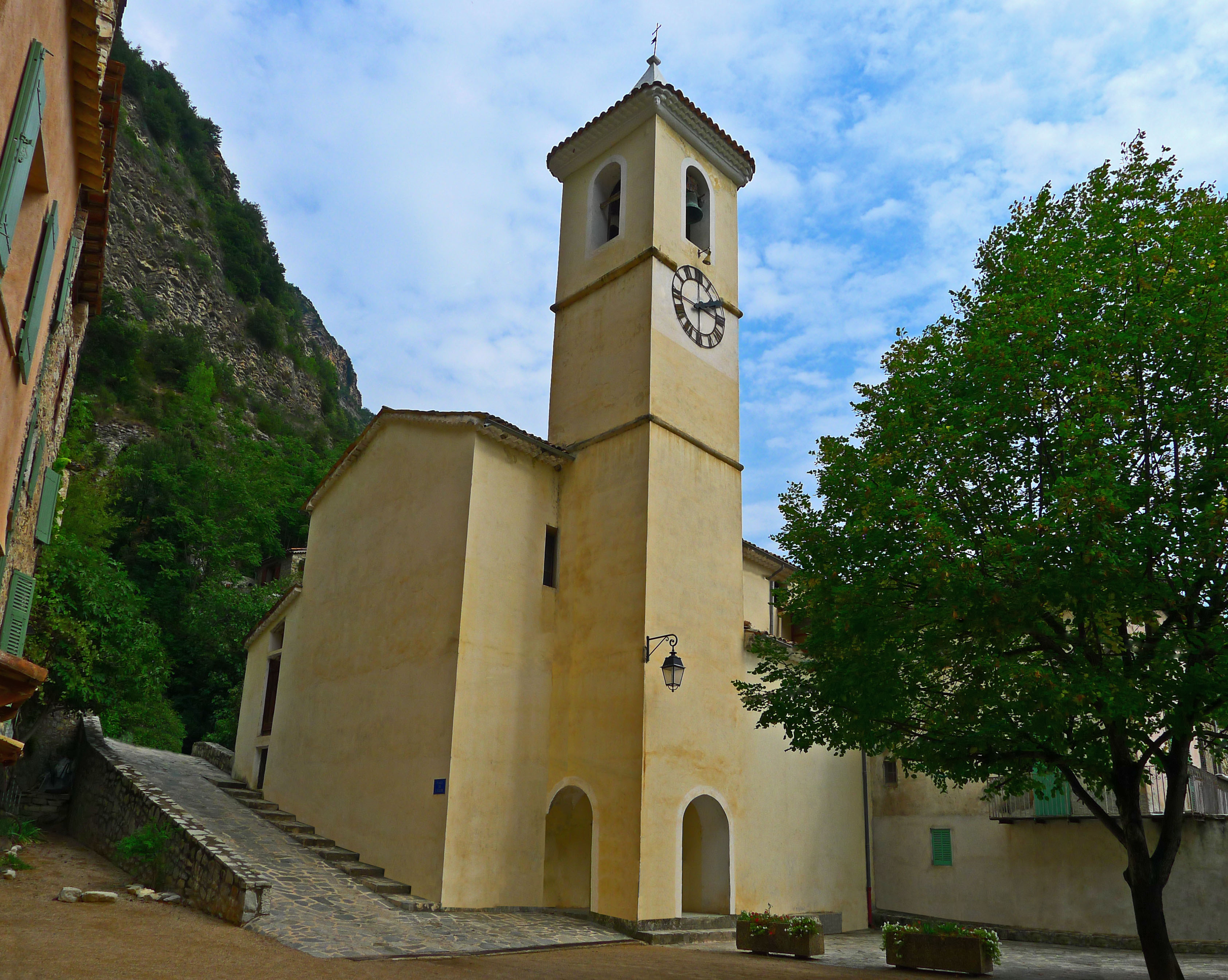 The parish church of the high village of Touët-sur-Var